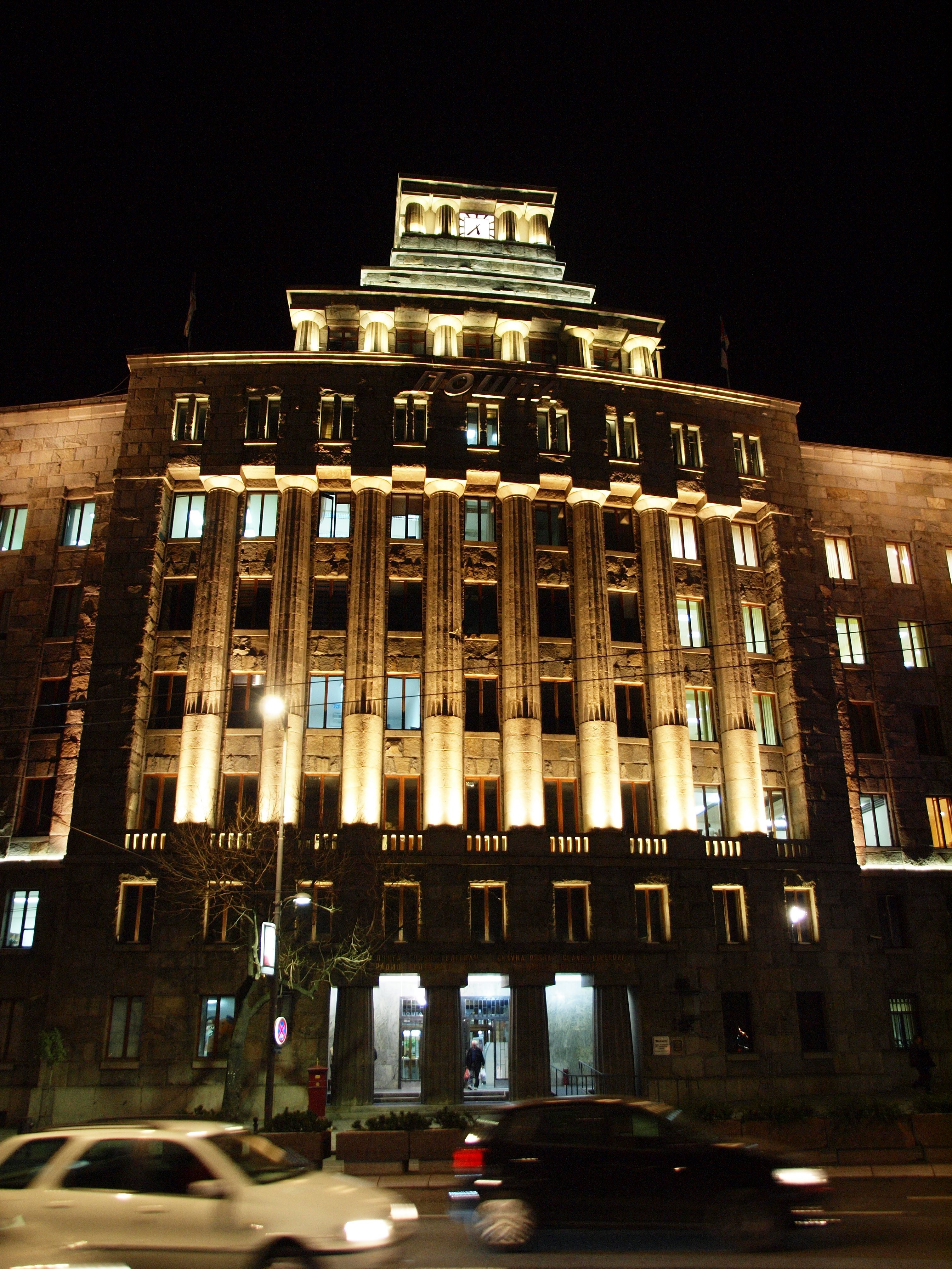 Glavna Posta Belgrade